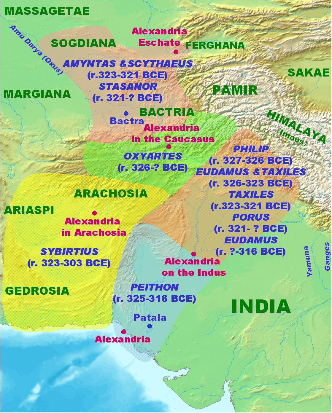 Eastern Satraps After Alexander. Personal map 2007.